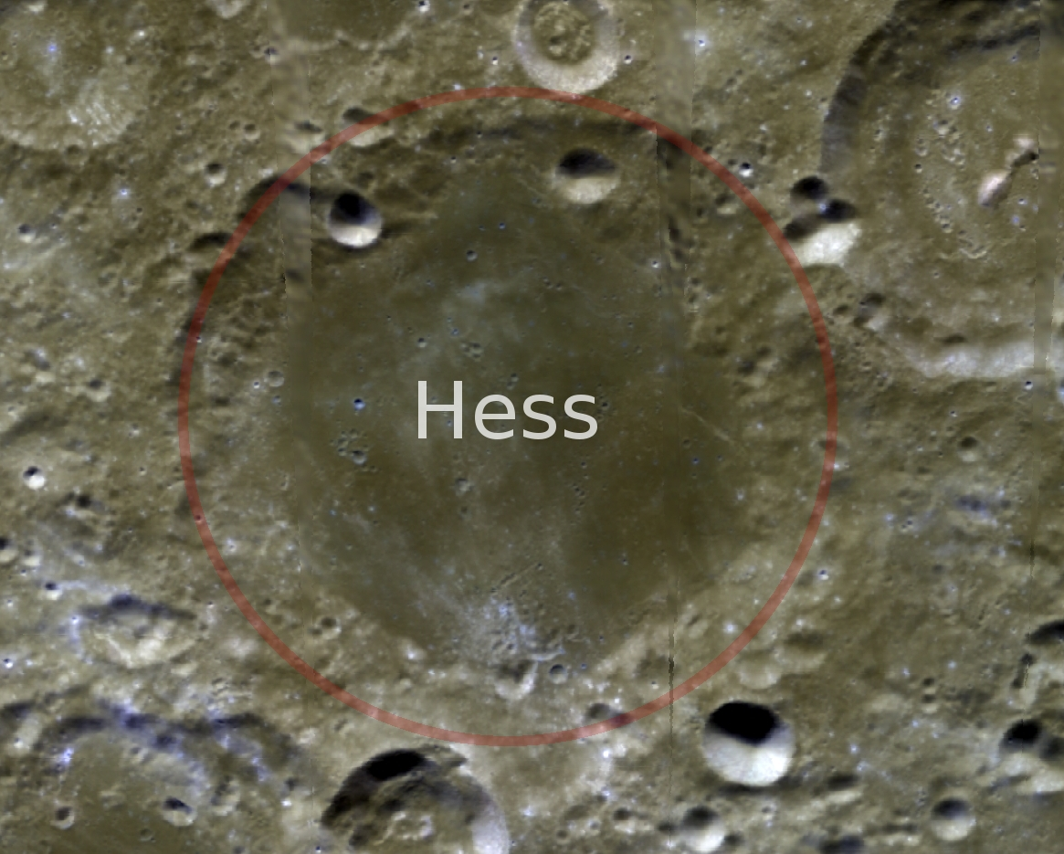 Hess crater in the southern region of the far side of the Moon. Cropped and annotated version (by uploader) of computer generated image by PDS MAP-A-PLANET.